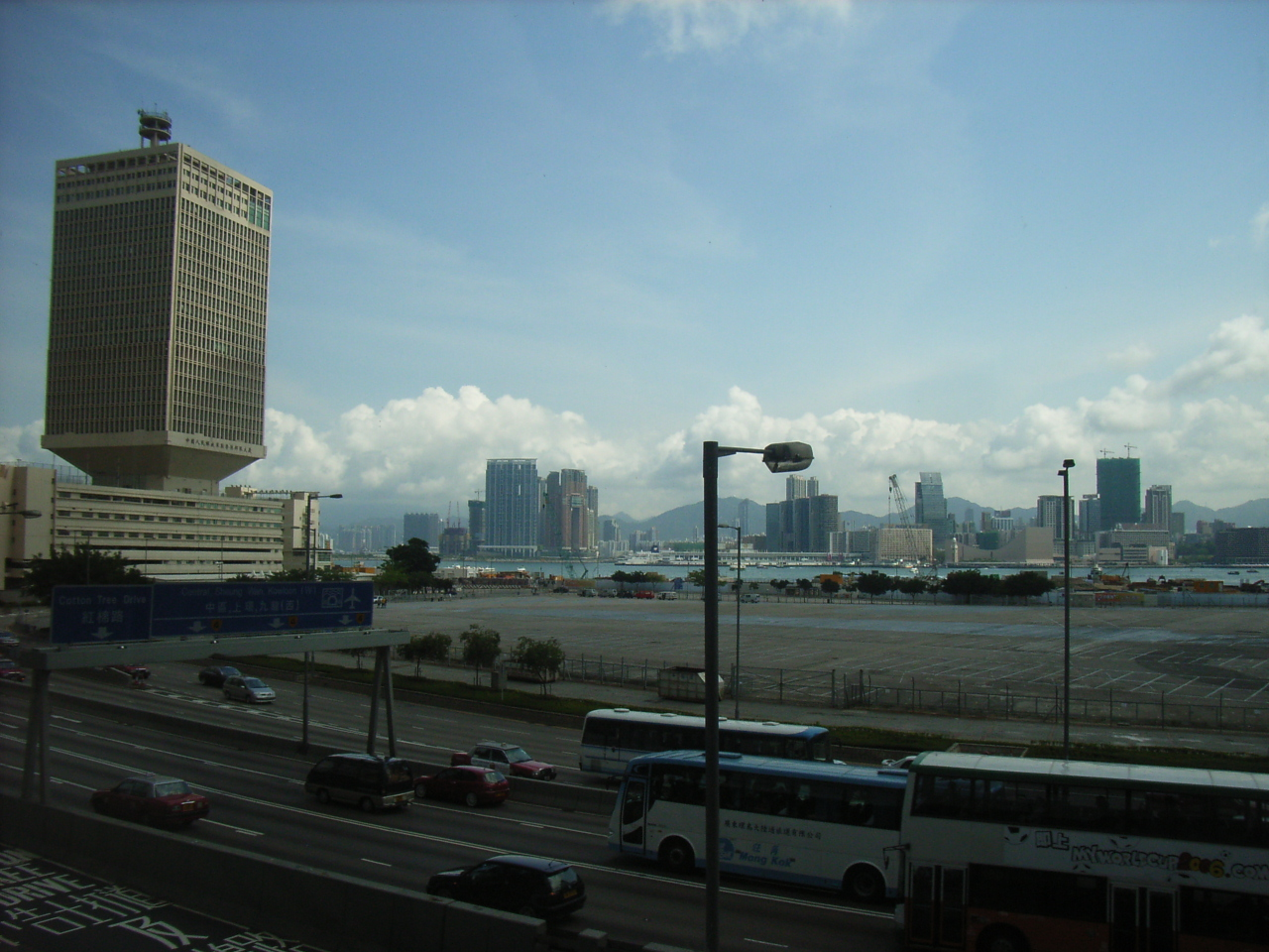 Queensway Bay Road, HK Island Photo by